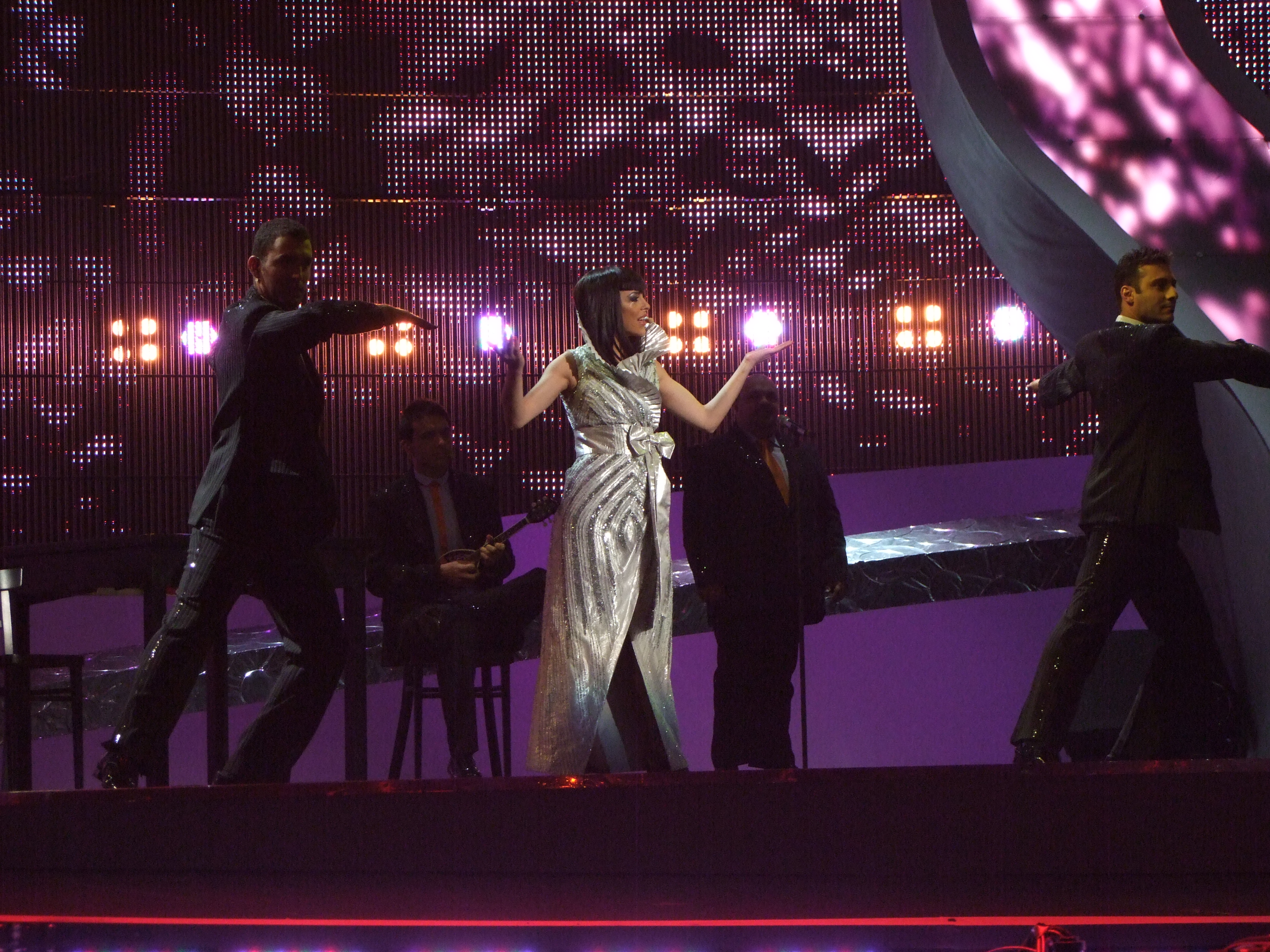 Evdokia Kadi (Cyprus) performing Femme Fatale at second semi-final, Eurovision Song Contest 2008 in Belgrade, Serbia, May 22, 2008.